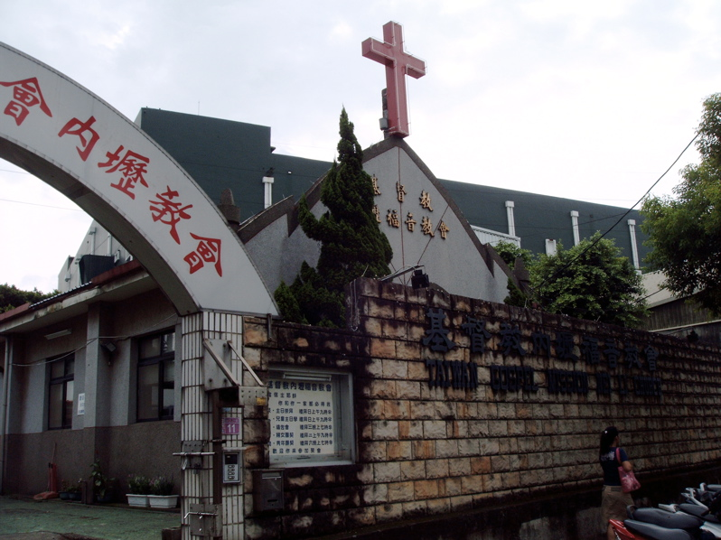 Taiwan Gospel Mission Nei-Li Church.